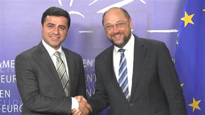 Turkish MP and BDP Co-Chair Selahattin Demirtaş with President of the European Parliament Martin Schulz in Brussels, Belgium.